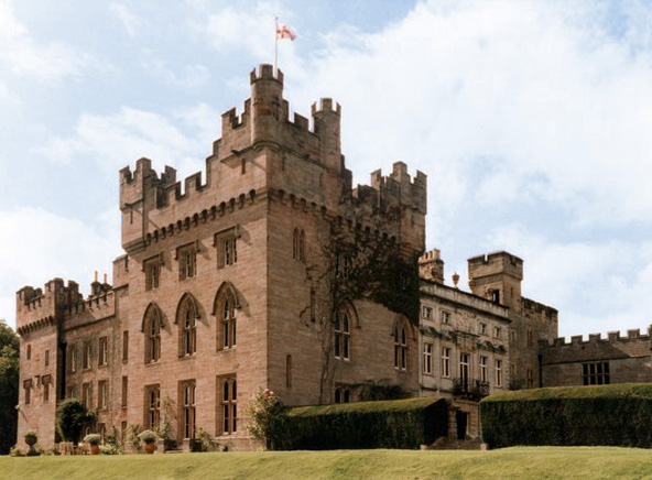 Hutton in the Forest